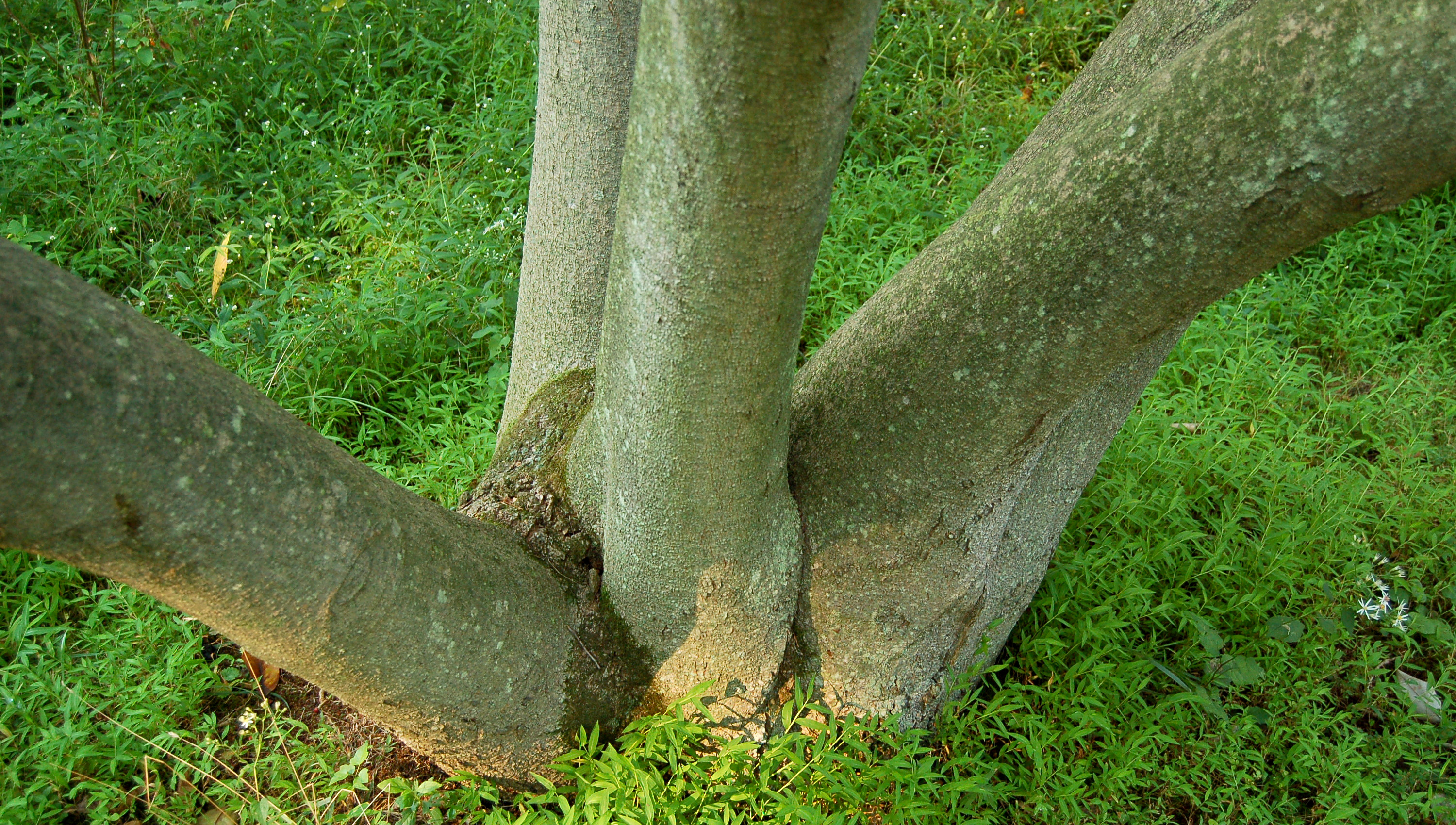 A photograph of the base of the trunk of the Sweetbay Magnolia Tree (Magnolia virginiana). Photo taken at the Tyler Arboretum where it was identified.